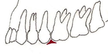 Diagram showing embrasure (red triangle) between maxillary right second bicuspid and maxillary right first molar. Right lateral view.